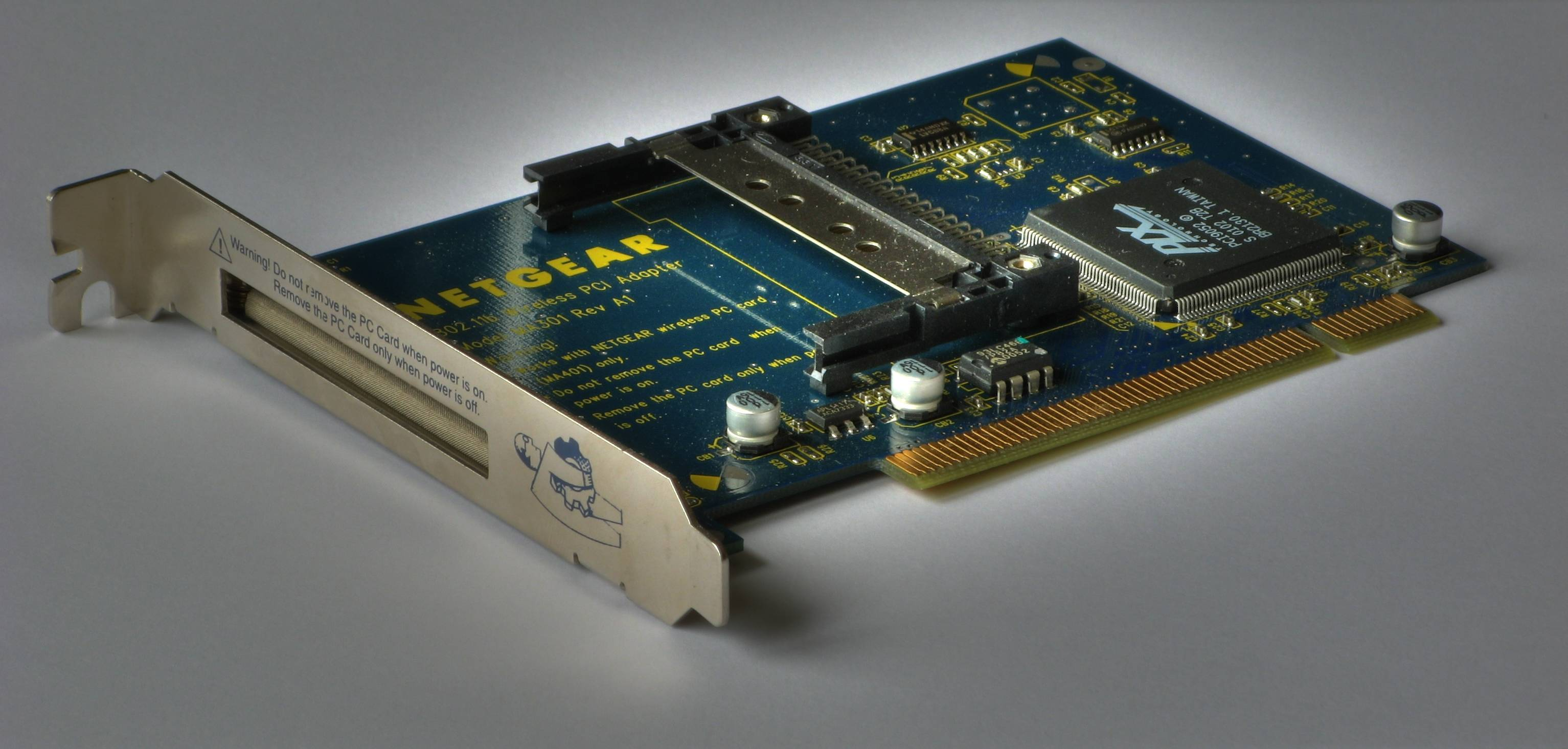 Adapter-Card for Notebook PCMCIA/PC-Cards in a PCI-Slot